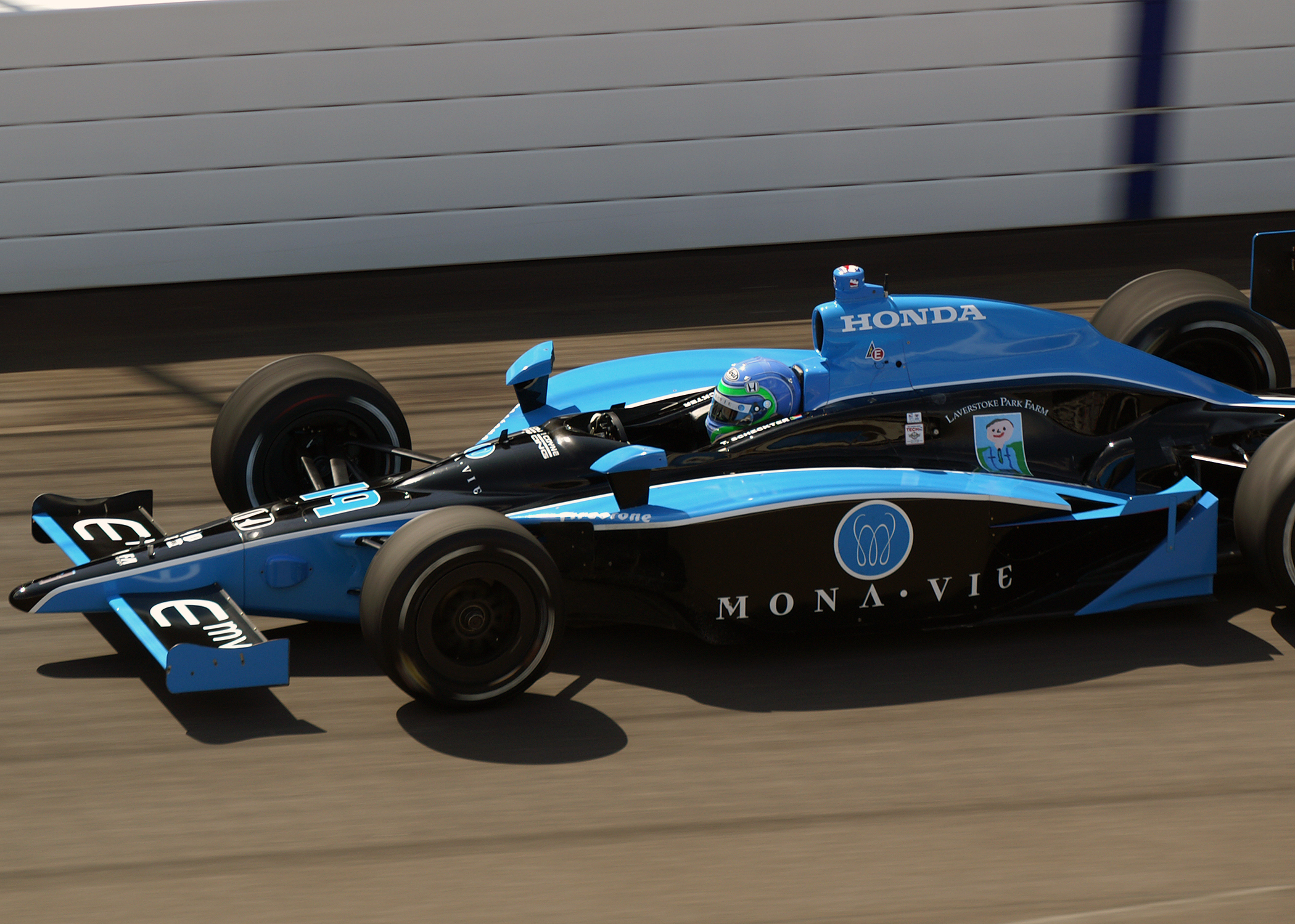 Tomas Scheckter during a practice session at the Indianapolis Motor Speedway.